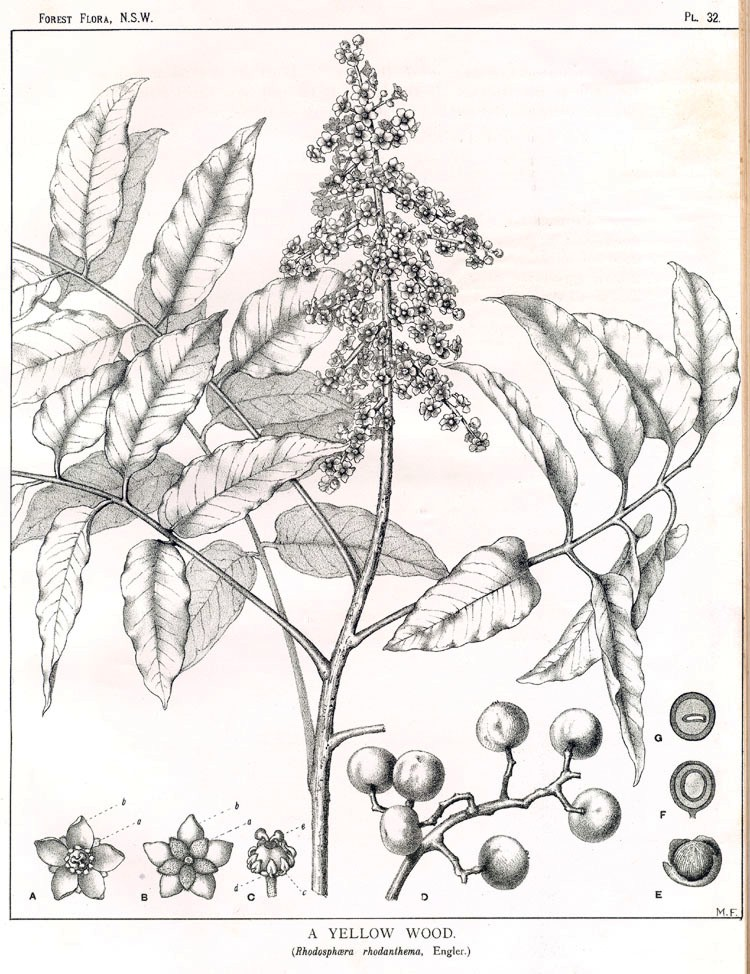 Yellow Wood, Rhodosphaera rhodanthema (F.Muell.) Engl., Plate 32 from Forest Flora of New South Wales by by Joseph Henry Maiden (1859–1925)